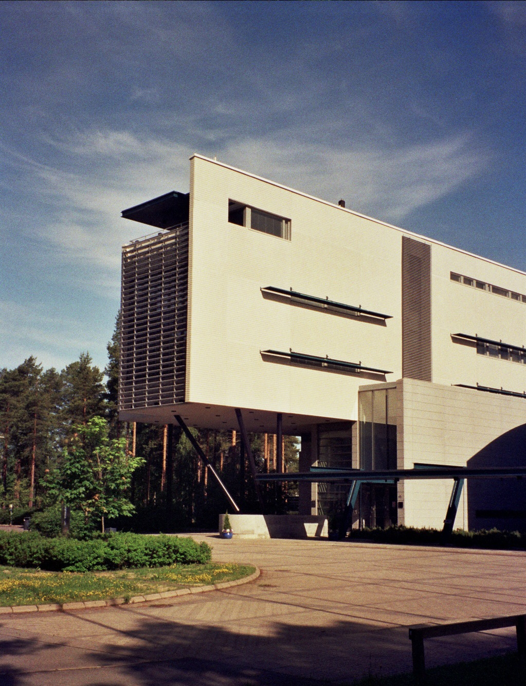 A part of the main building of the university of Oulu in Linnanmaa, Oulu, Finland.